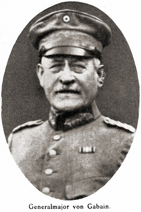 prussain major general Arthur von Gabain